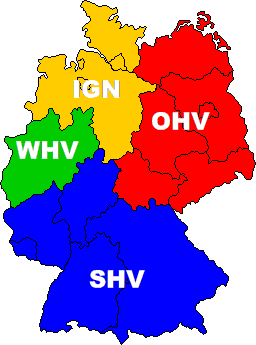 Hockey regions in Germany